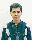 Rustam Kasimdzhanov, 1999 at Porz on the German 'Schachbundesliga' 1998/99